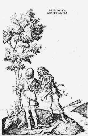 Benedetto Montagna, Apollo and Cyparissus, ca. 1515-1520, woodcut.